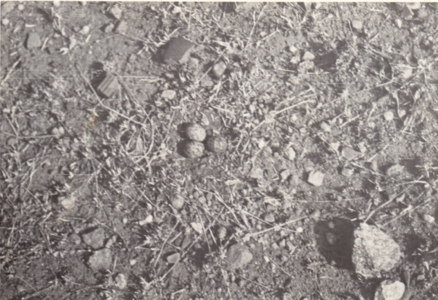 Eggs of Yellow-wattled Lapwing